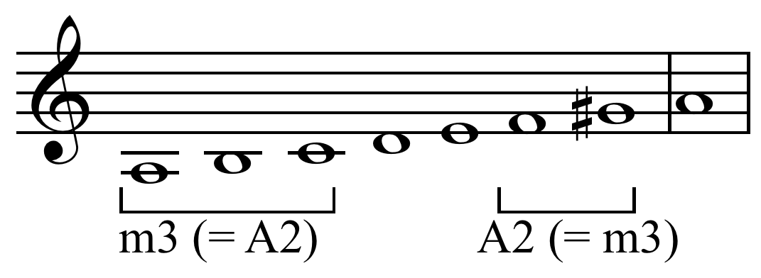 Incomposite interval in the a harmonic minor ascending scale. A2 (F to G♯) = m3 (A to C).